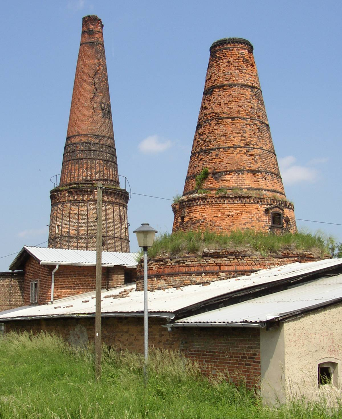 Lime kiln in Wriezen in Brandenburg, Germany